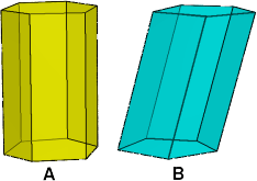 right (A) and not-right (B) prism.